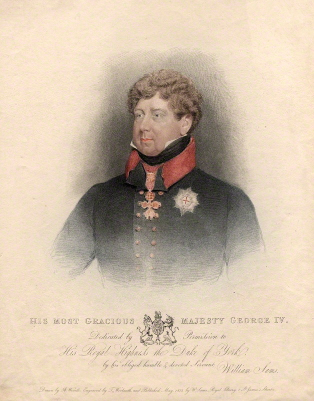 George IV of the United Kingdom (1762-1830; r. 1820-1830)